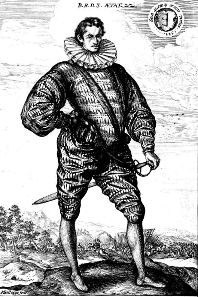 Balthasar Bathory de Somlyo